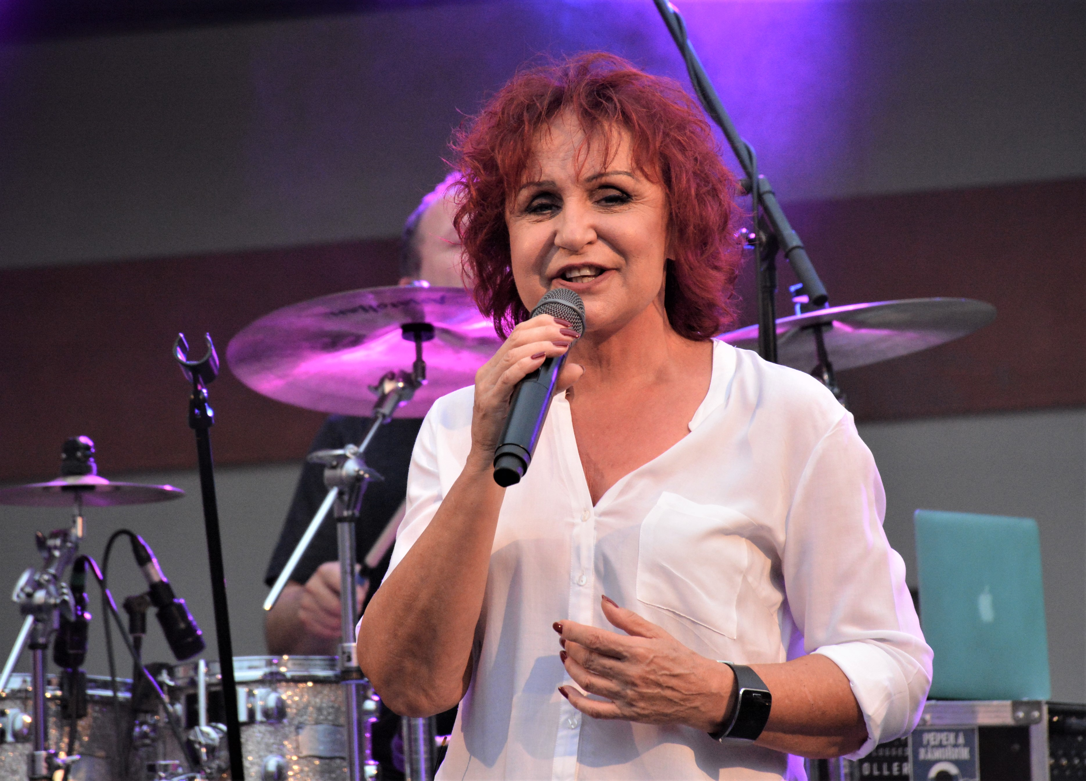 Petra Janů, Czech vocalist